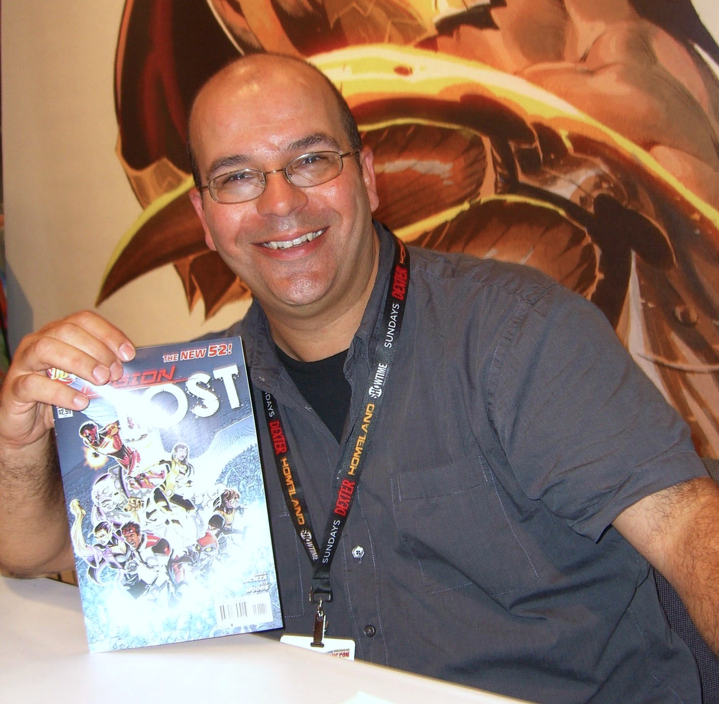 Comics creator Fabian Nicieza at the 2011 New York Comic Con, Friday, October 14, 2011. This photo was created by Luigi Novi. It is not in the public domain, and use of this file outside of the licensing terms is a copyright violation.